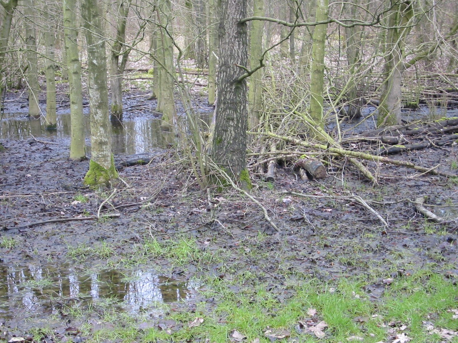 Hulkesteins forest. Trees like spruce and beech in wet ground. Bad for the spruce especially.